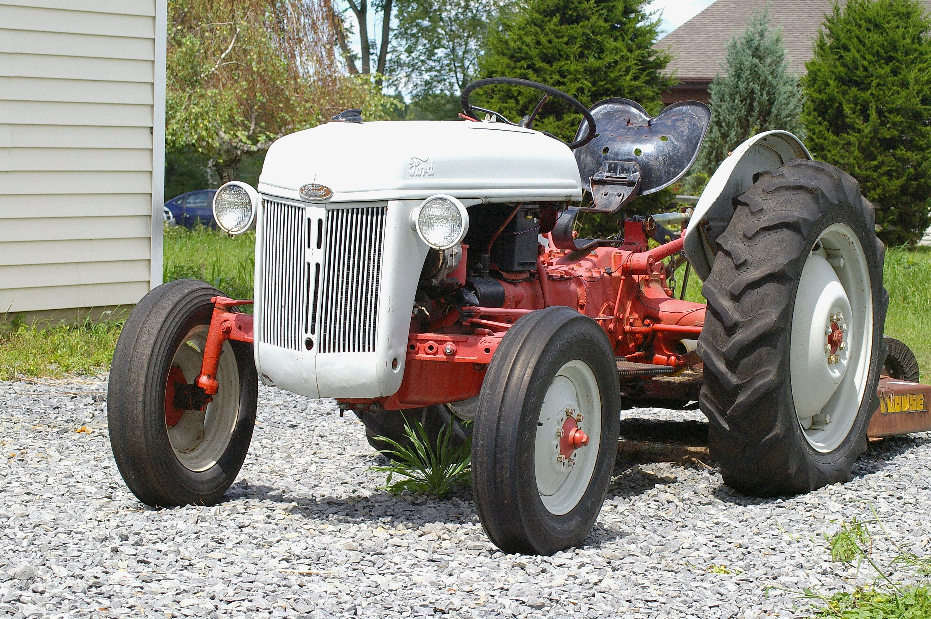 Ford-Tractor (unidentified model of the N series).